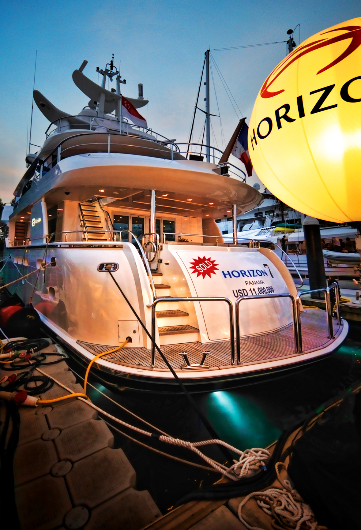 The Largest Fleet of Yachts at Boat Asia 2011. A showcase of the largest fleet of sailing yachts, powerboats and superyachts. Azimut, Beneteau, Chaparral, Ferretti, Grand Banks, Horizon, Jeanneau, Lagoon, Majesty, Maritimo, Monte Carlo, Pershing, Riviera, Sunseeker, Sunreef, Zar, the list goes on. This particular beau "Horizon 7" was sold for a cool USD11,000,000. Location: Keppel Bay, Singapore